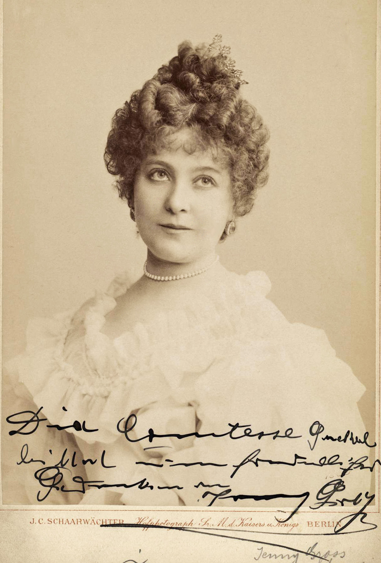 Picture of Jenny Gross (In